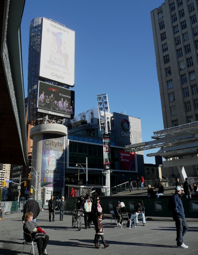 33 Dundas Street East and Yonge-Dundas Square, Toronto